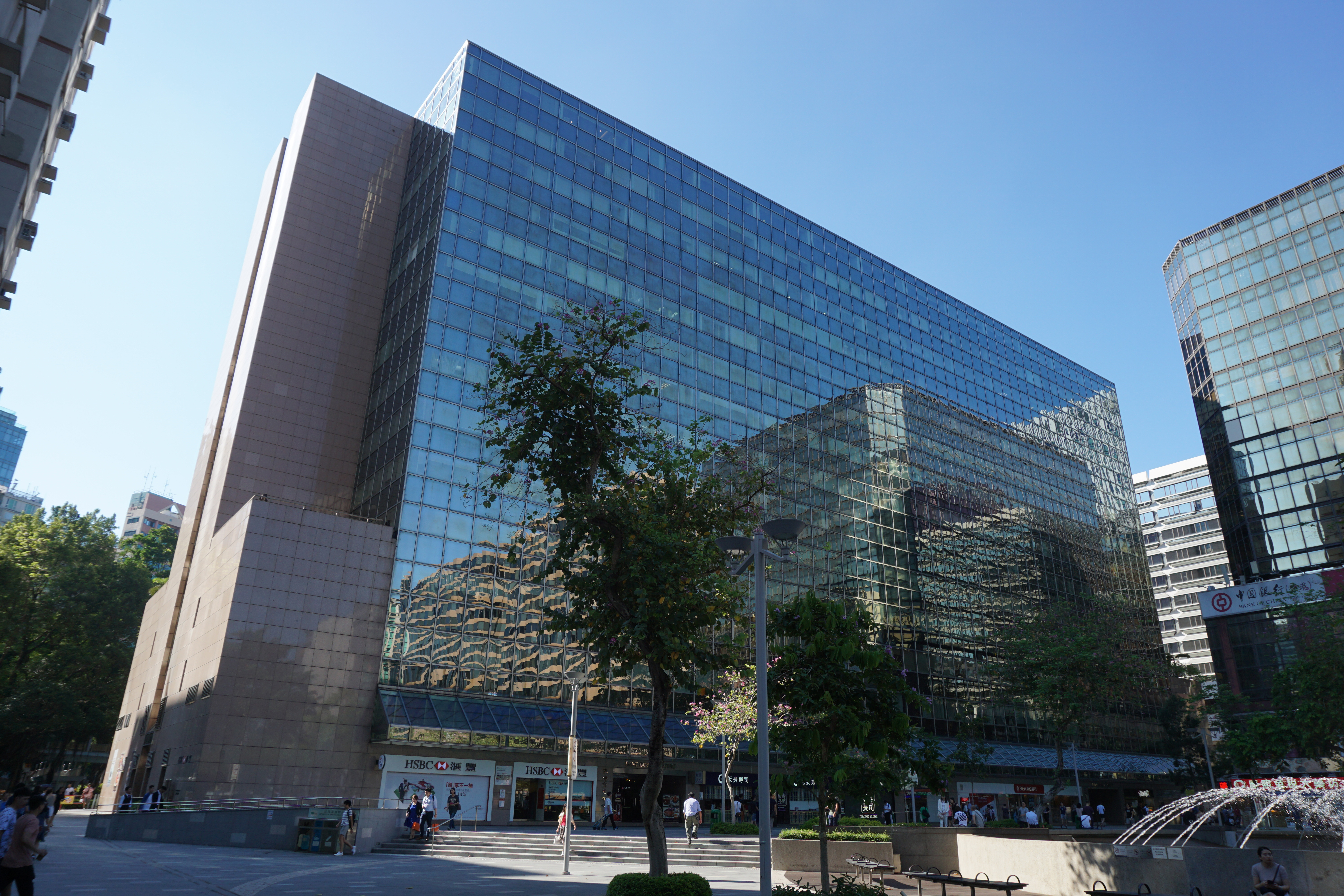 East Ocean Centre in Tsim Sha Tsui East, Hong Kong.